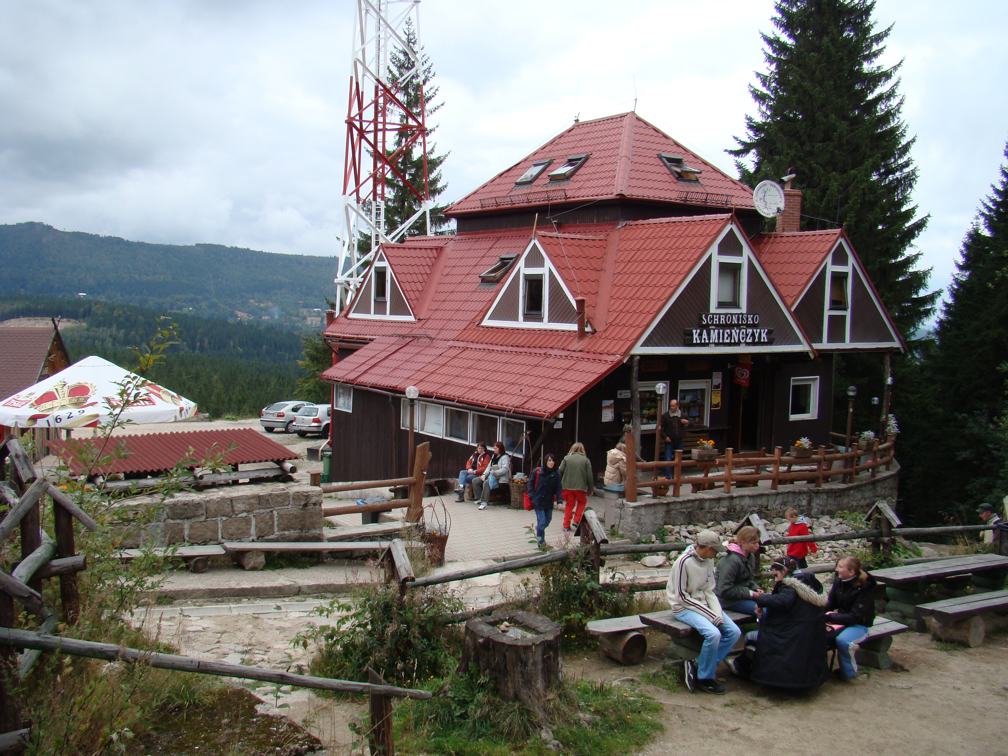 Mountain shelter "Kamieńczyk" in Giant Mountains